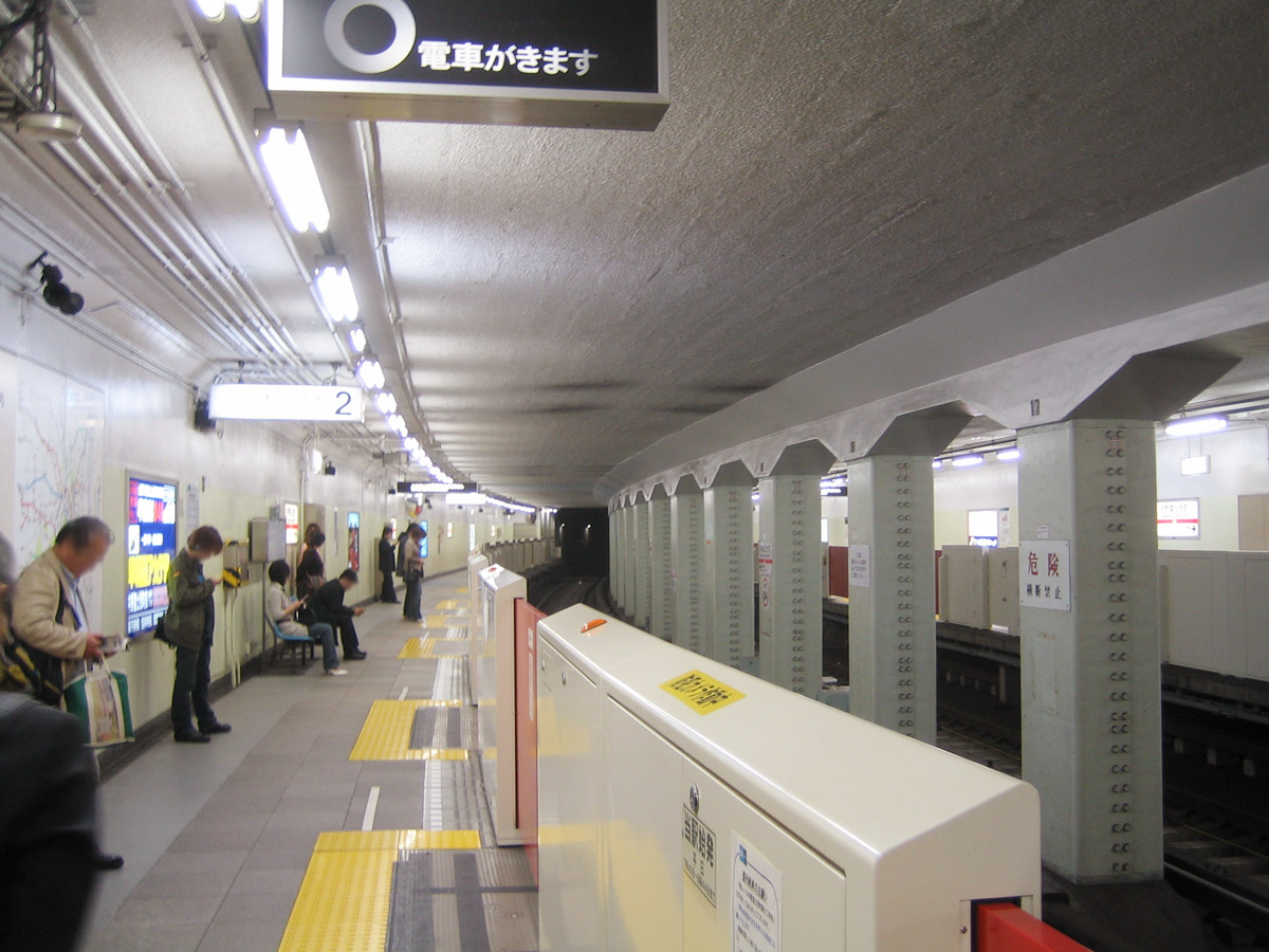 The platforms at Nakano-fujimicho Station on the Tokyo Metro Marunouchi Line in Nakano, Tokyo, Japan